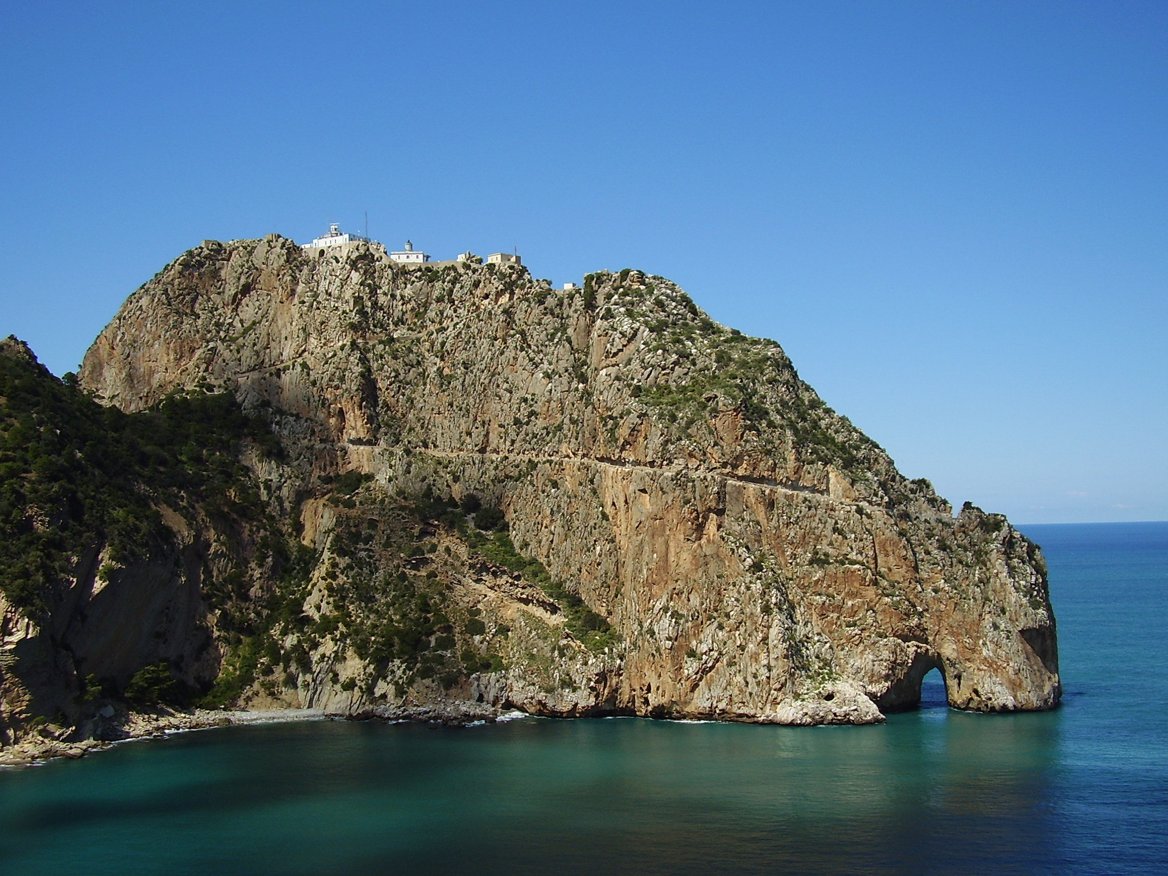 Cape Carbon phare, at the entrance of Béjaïa Bay